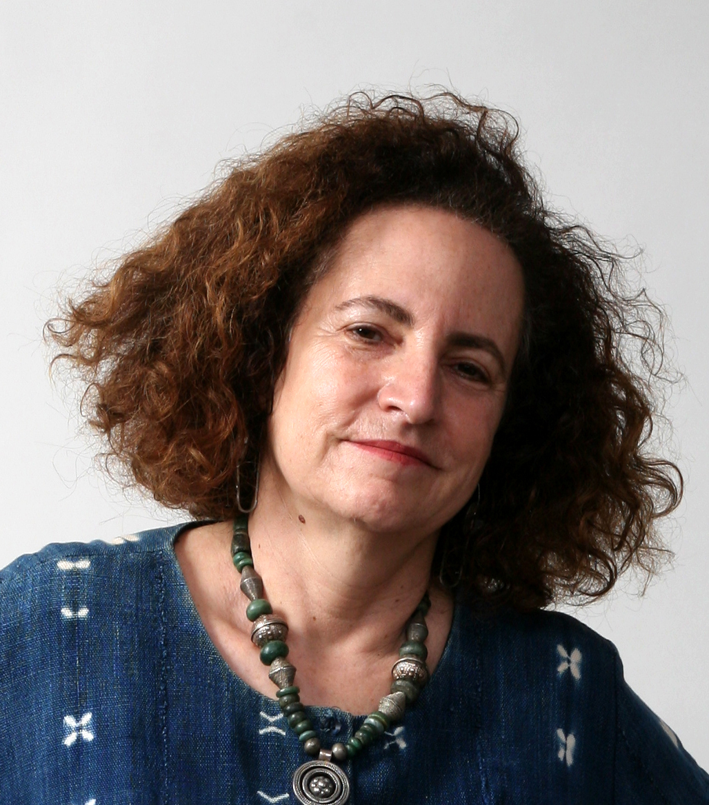 Janet Goldner headshot. Photo Teri Slotkin.